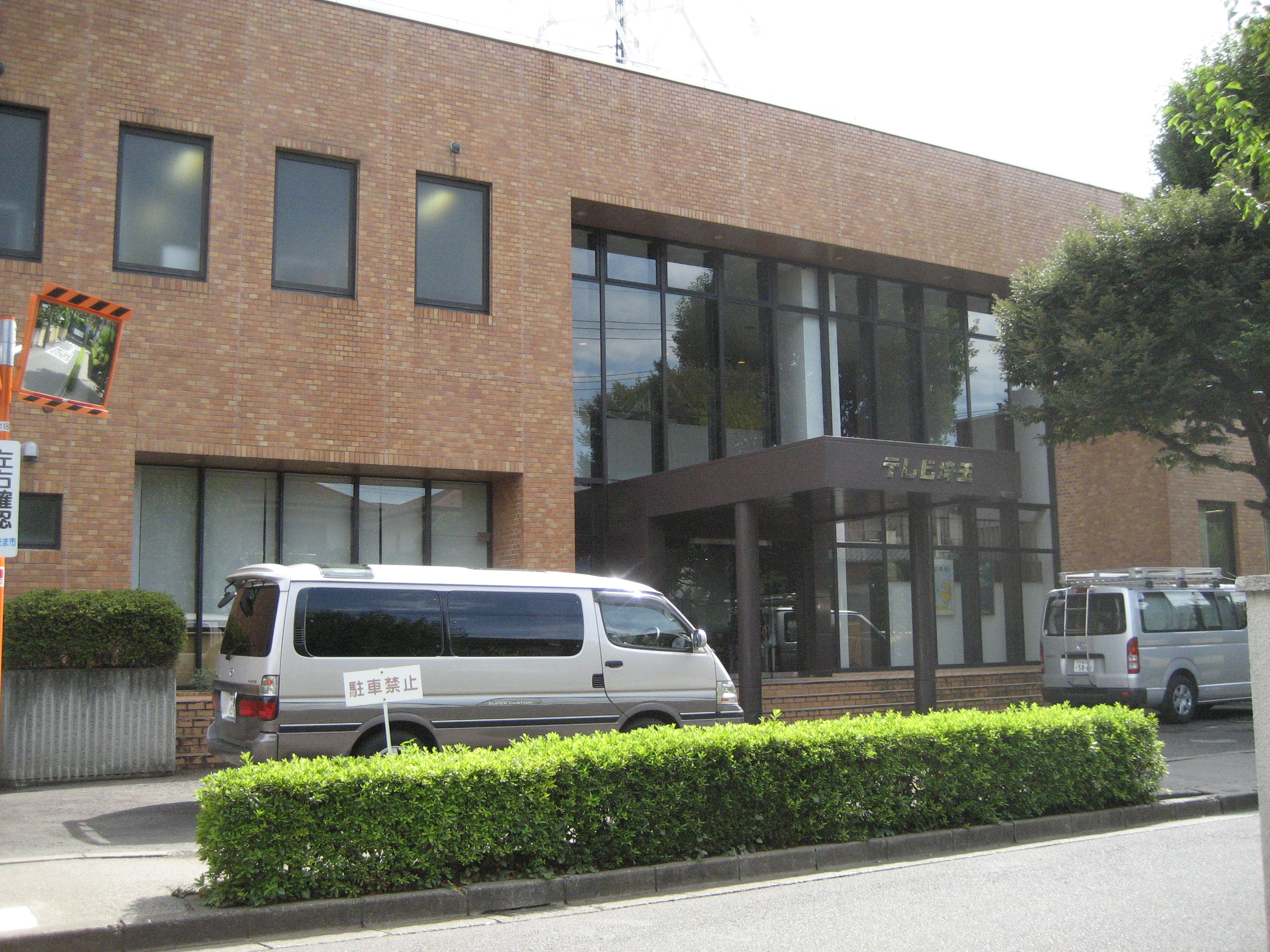 Television Saitama headquarters building